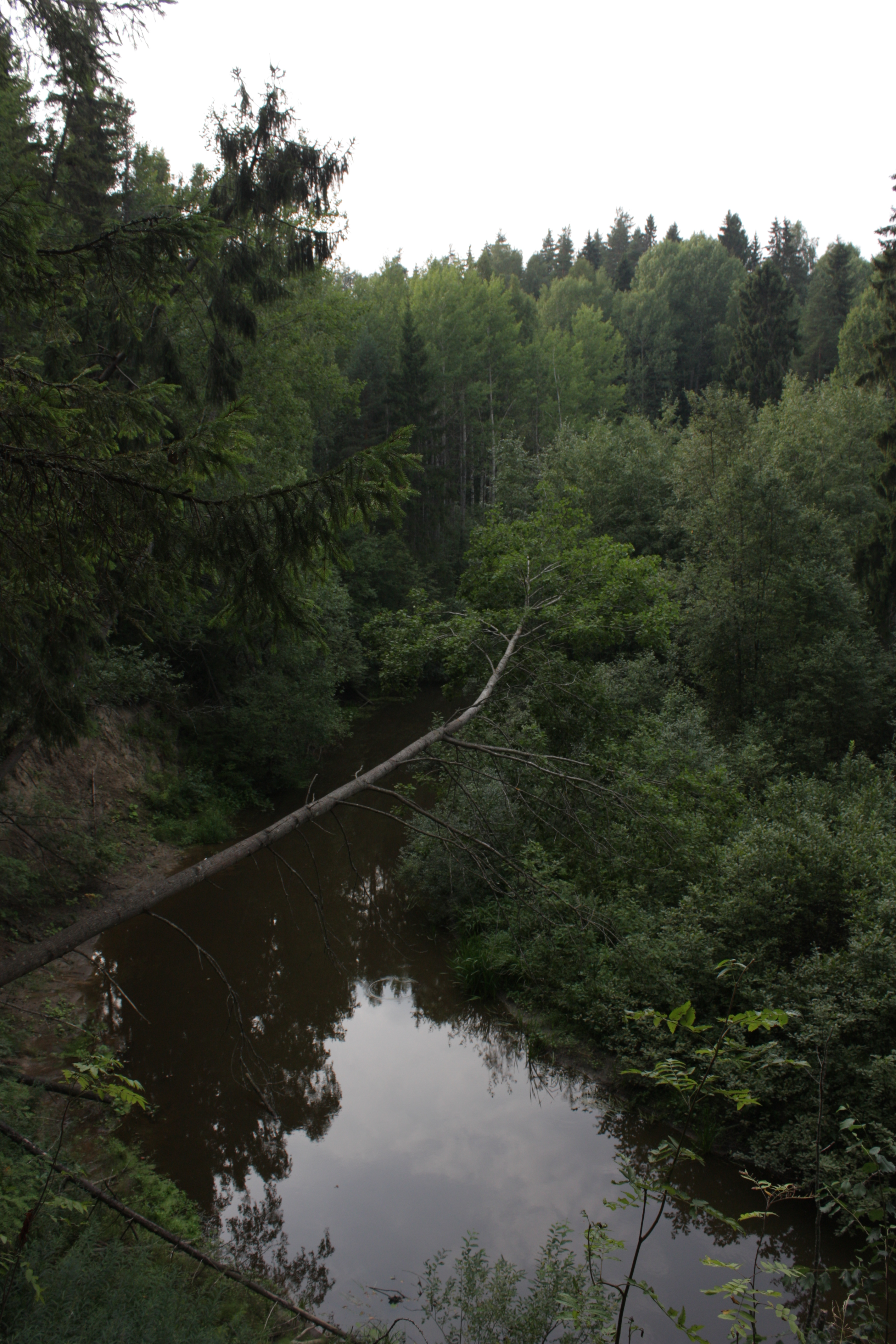 River Keravanjoki in Lemmenlaakso protected area, Järvenpää, Finland